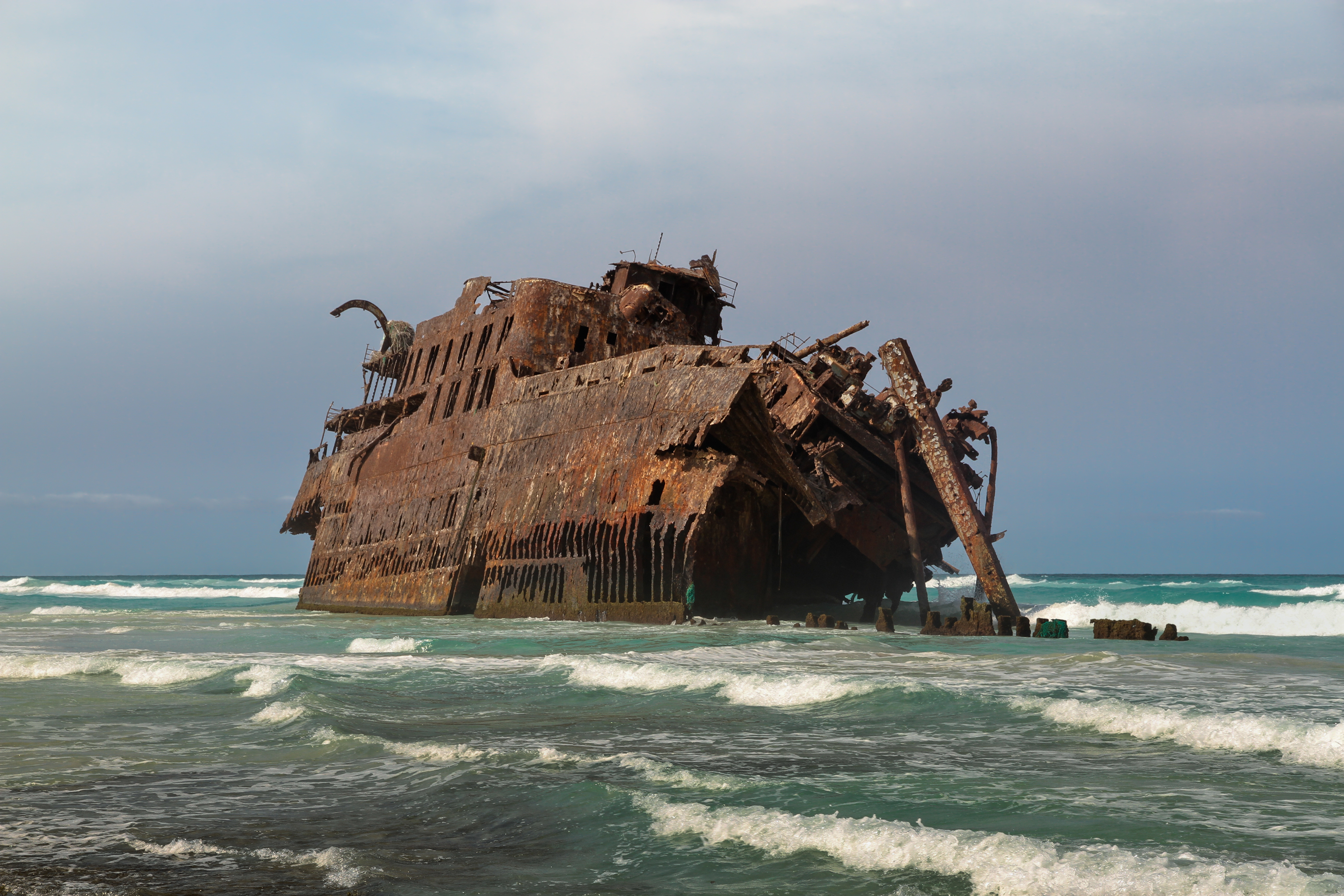 The ship wreck of Cabo de Santa Maria in Boa Vista, Cape Verde in 2010 December. The name of the ship is Cabo Santa Maria and it was wrecked here in 1968. The beach is called Praia de Atalanta after a Scandinavian ship called the Atalanta that was lost in the area in 1920.